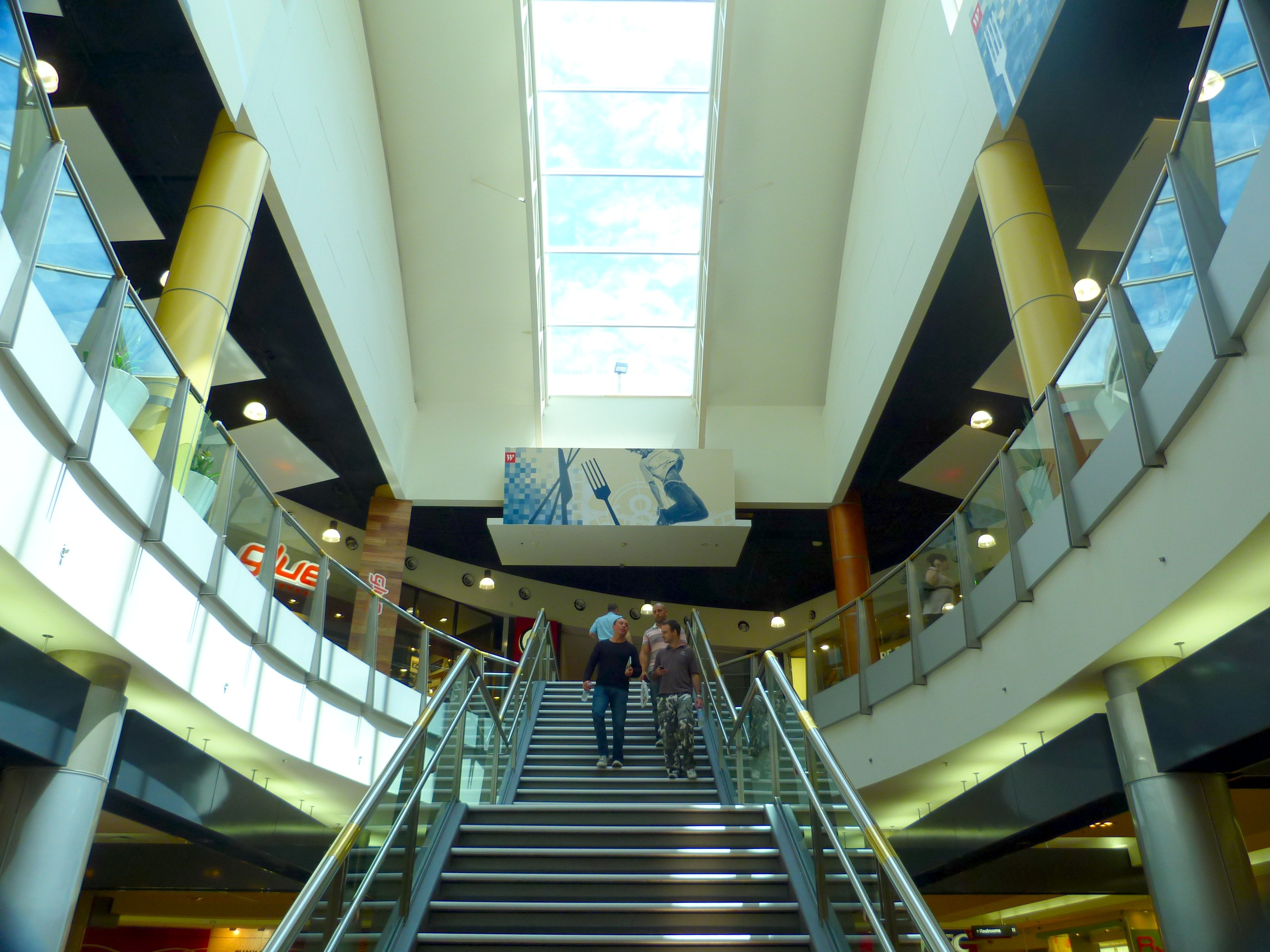 westfield eastgardens, sydney